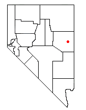 Location of the Schell Creek Range in White Pine County, Nevada.